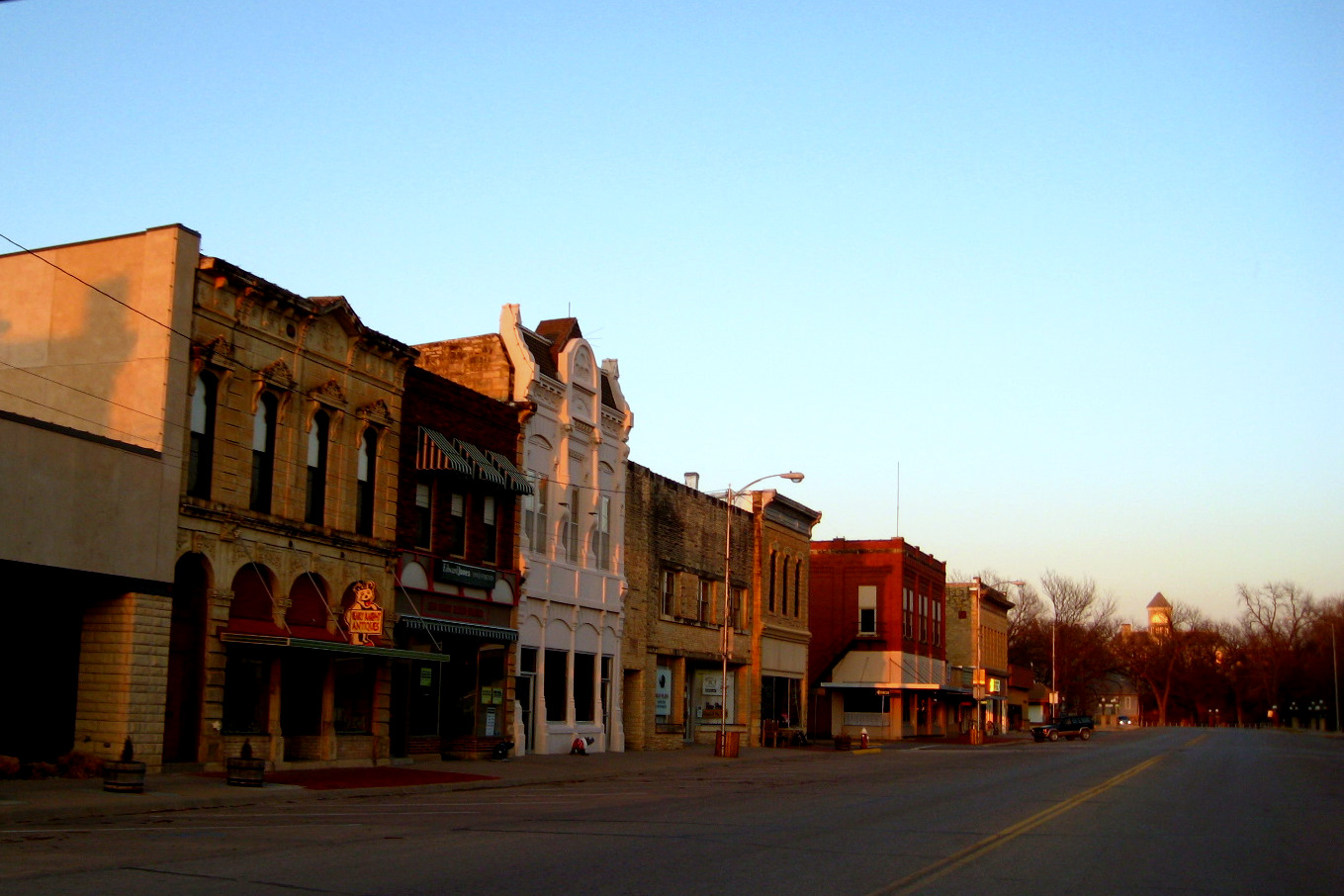 Downtown Marion Kansas